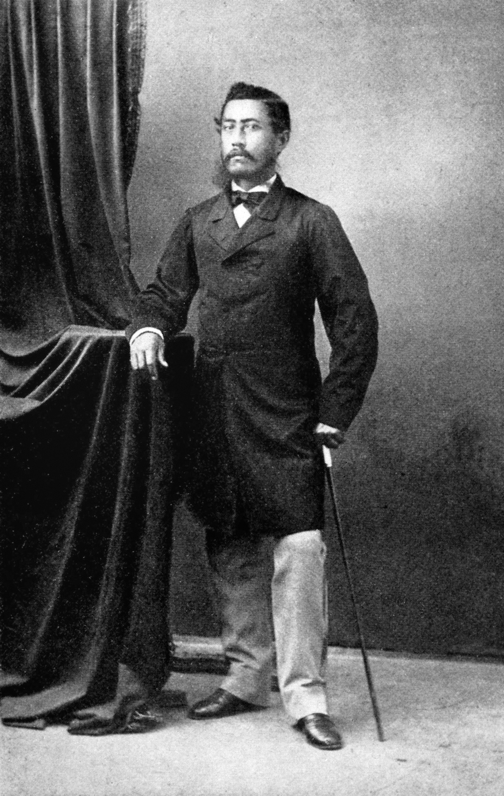 Lunalilo, in a formal portrait, taken by Henry L. Chase, around 1873.